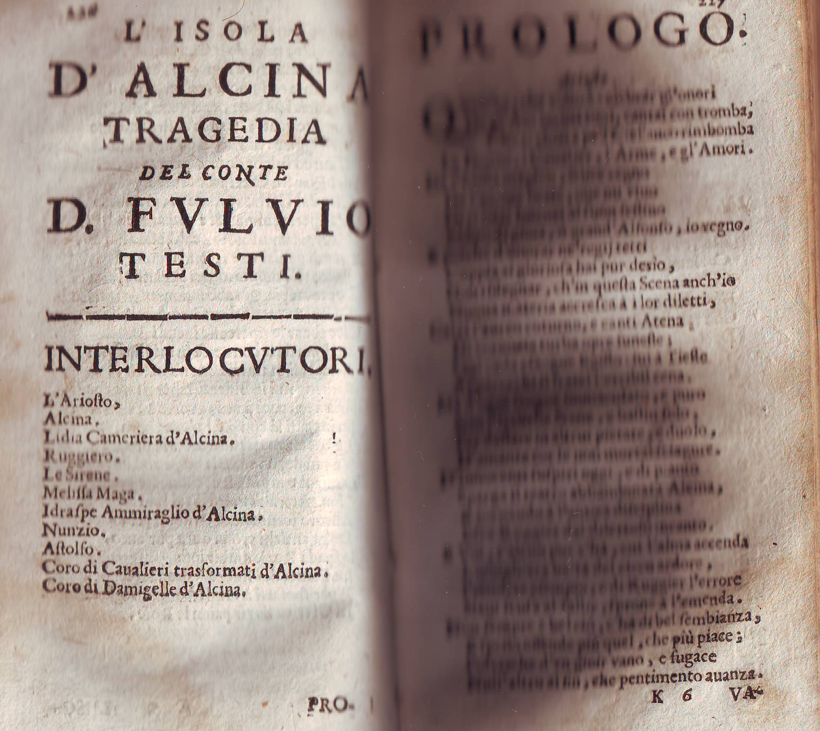 First page of "L'isola di Alcina", tragedy by Fulvio Testi, italian poet of XVIIth Century.